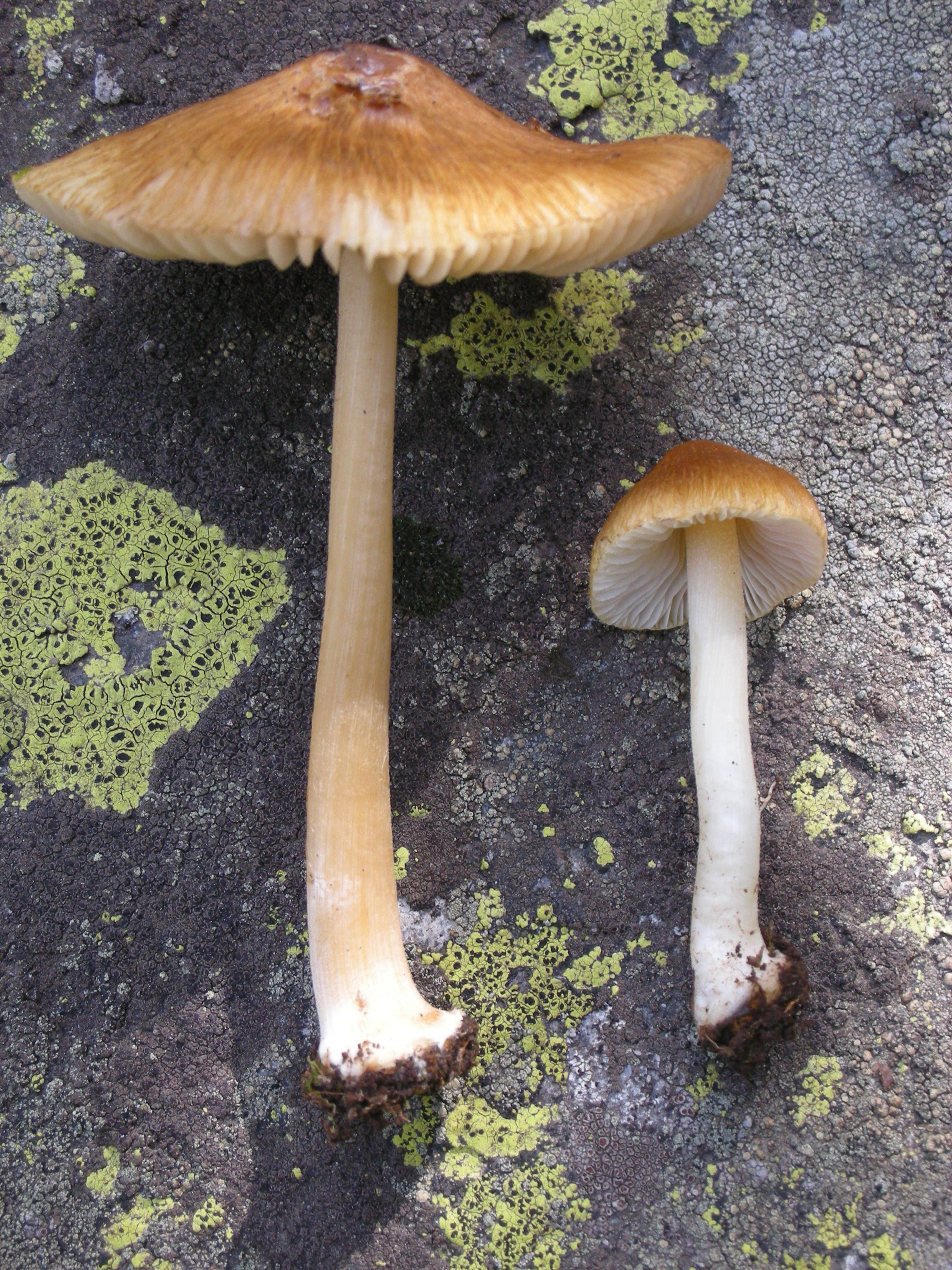 Inocybe praetervisa Location: McCall, Idaho, USA Observation Notes: Collected and ID’ed at the NAMA 2008 Foray. Can any Inocybe collection whose ID has not been thoroughly vetted be more than “Promising”? For more information about this, see the observation page at Mushroom Observer.